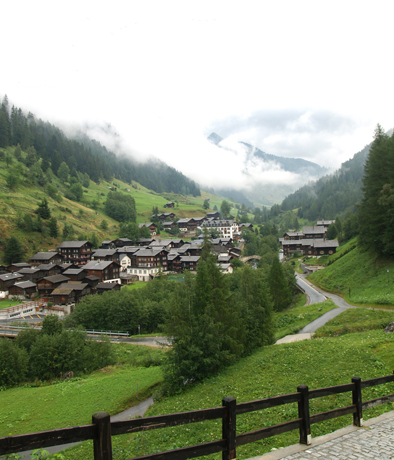 Binn village and Binntal (valley) view. Valais (Wallis), Switzerland